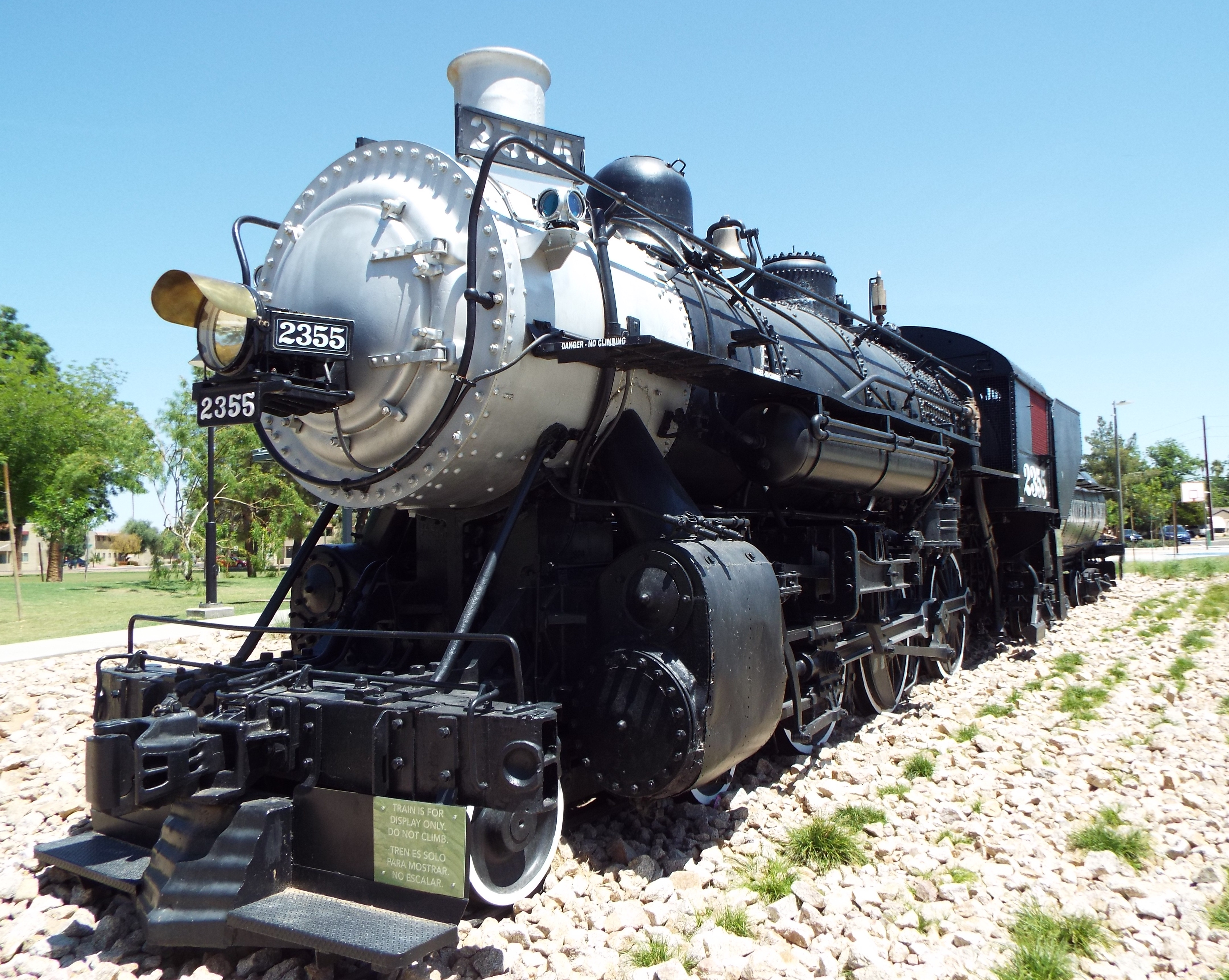 Historic Southern Pacific Railroad (SP) 2355 Steam locomotive in Mesa, AZ